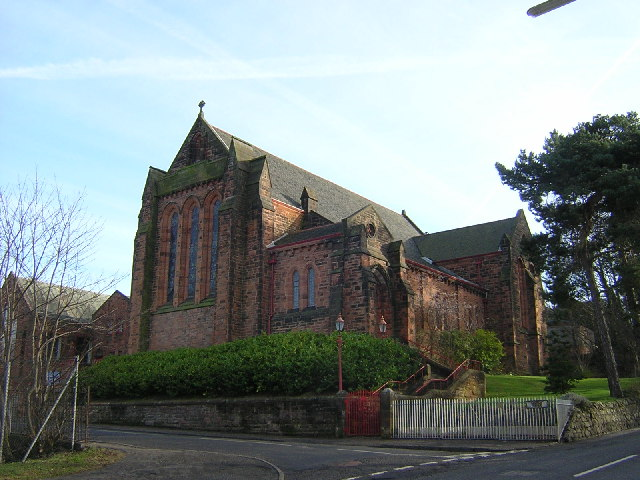 Burnside Church, South Lanarkshire, Scotland